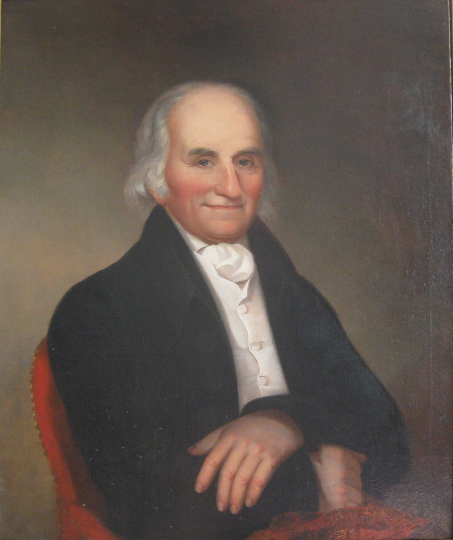 OIl portrait of Elijah Bosley painted by Sarah MIriam Peale, 73.66cm x 62.23cm""